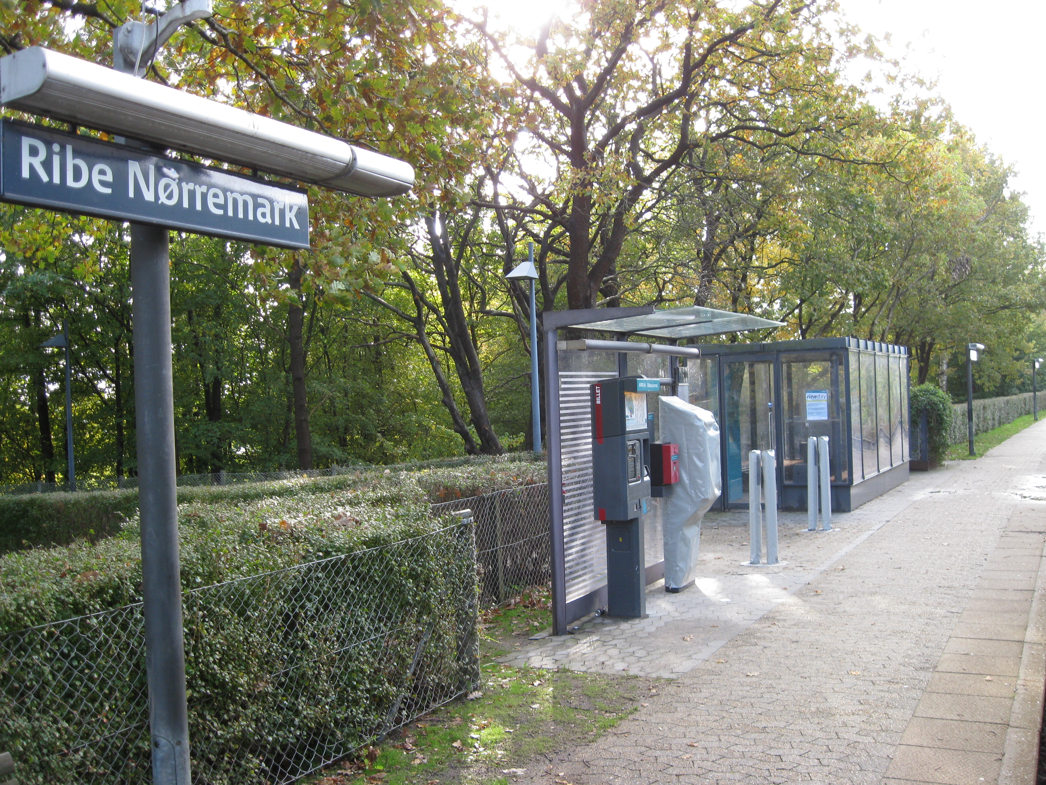 Ribe Nørremark Station, Denmark